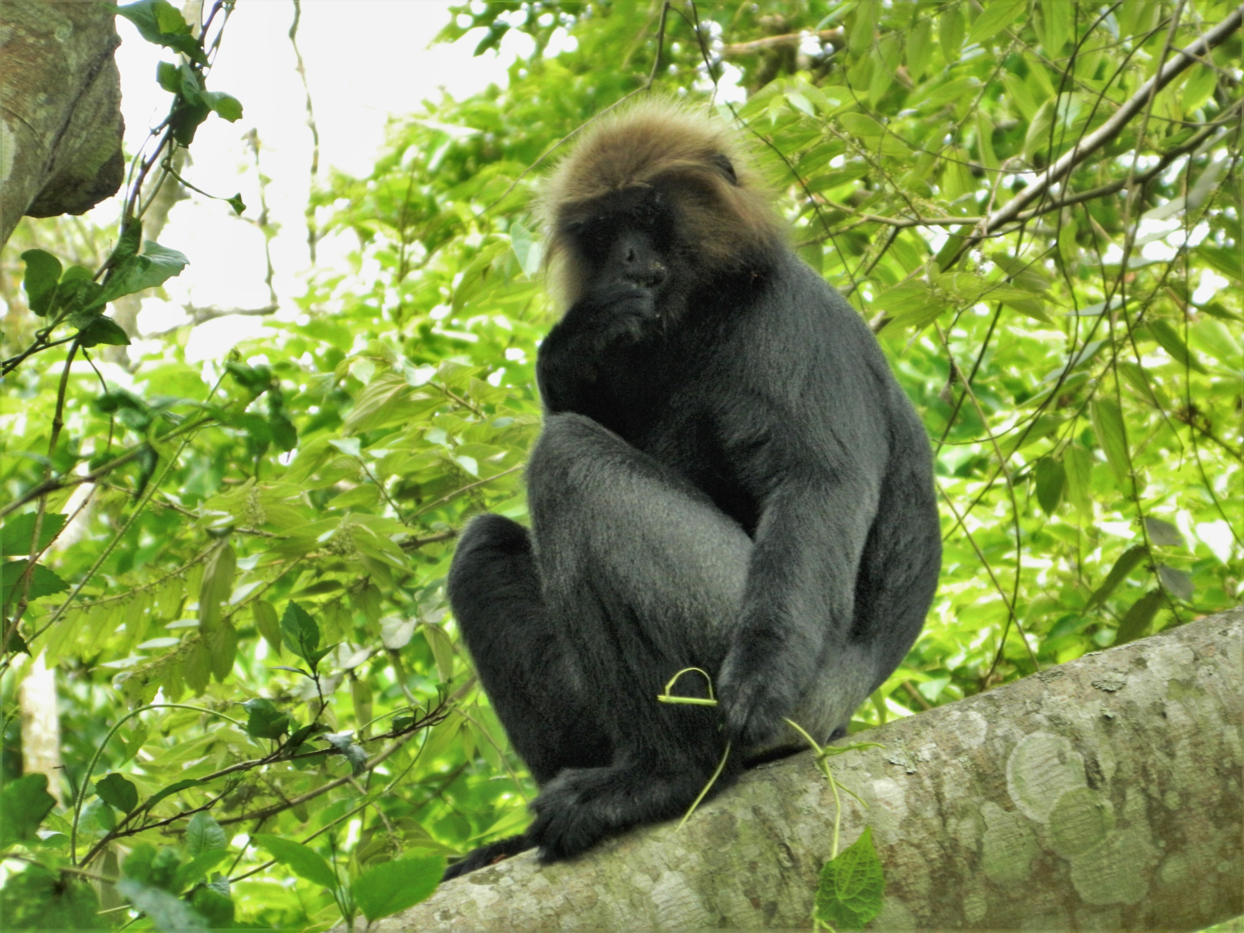 An adult Nilgiri Langur in the Periyar National Park and Wildlife Sanctuary This primate has glossy black fur on its body and golden brown fur on its head. It is similar in size and long-tailed like the gray langurs. Females have a white patch of fur on the inner thigh.